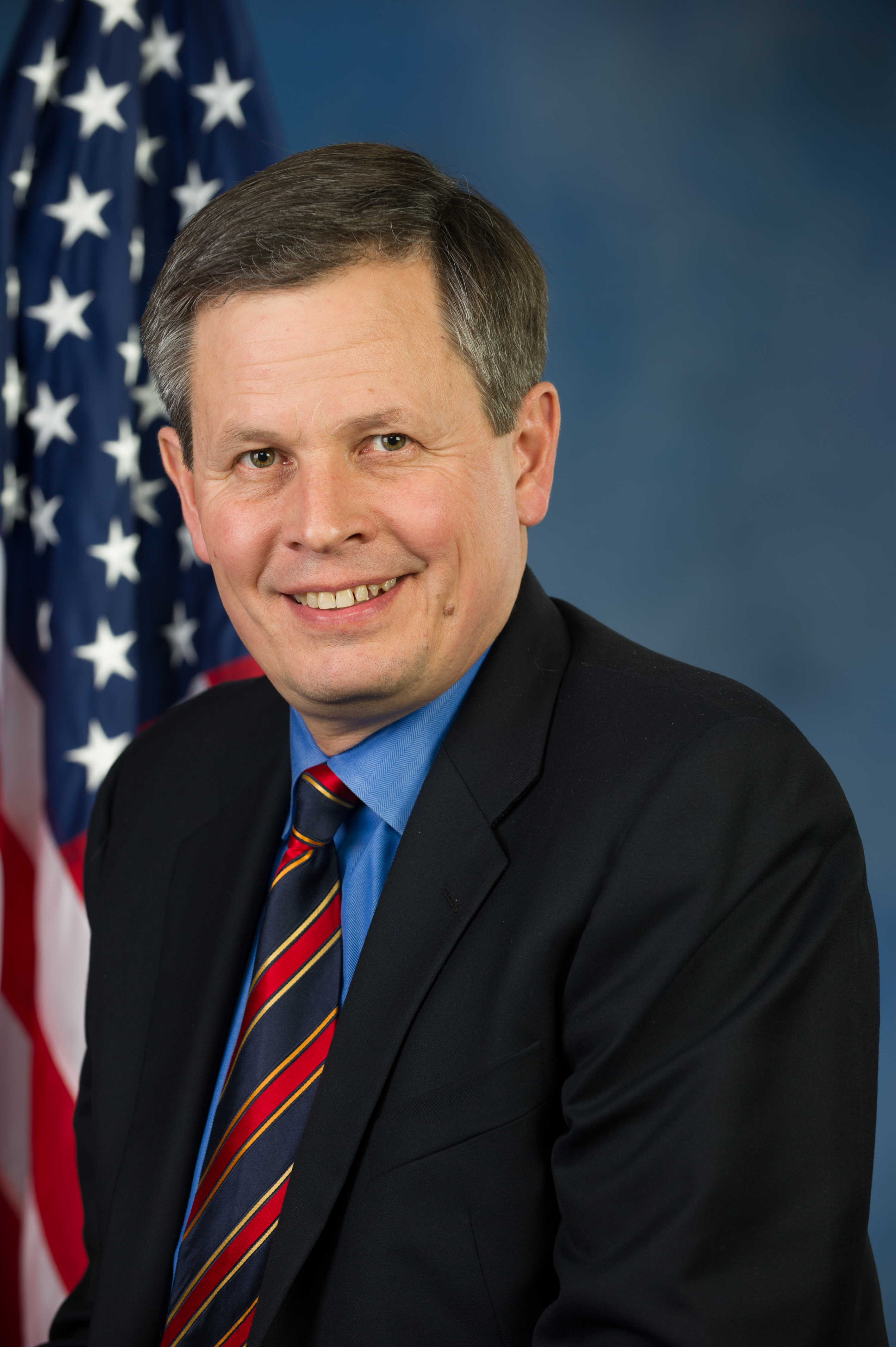 Official portrait of Congressman Steve Daines (R-MT).